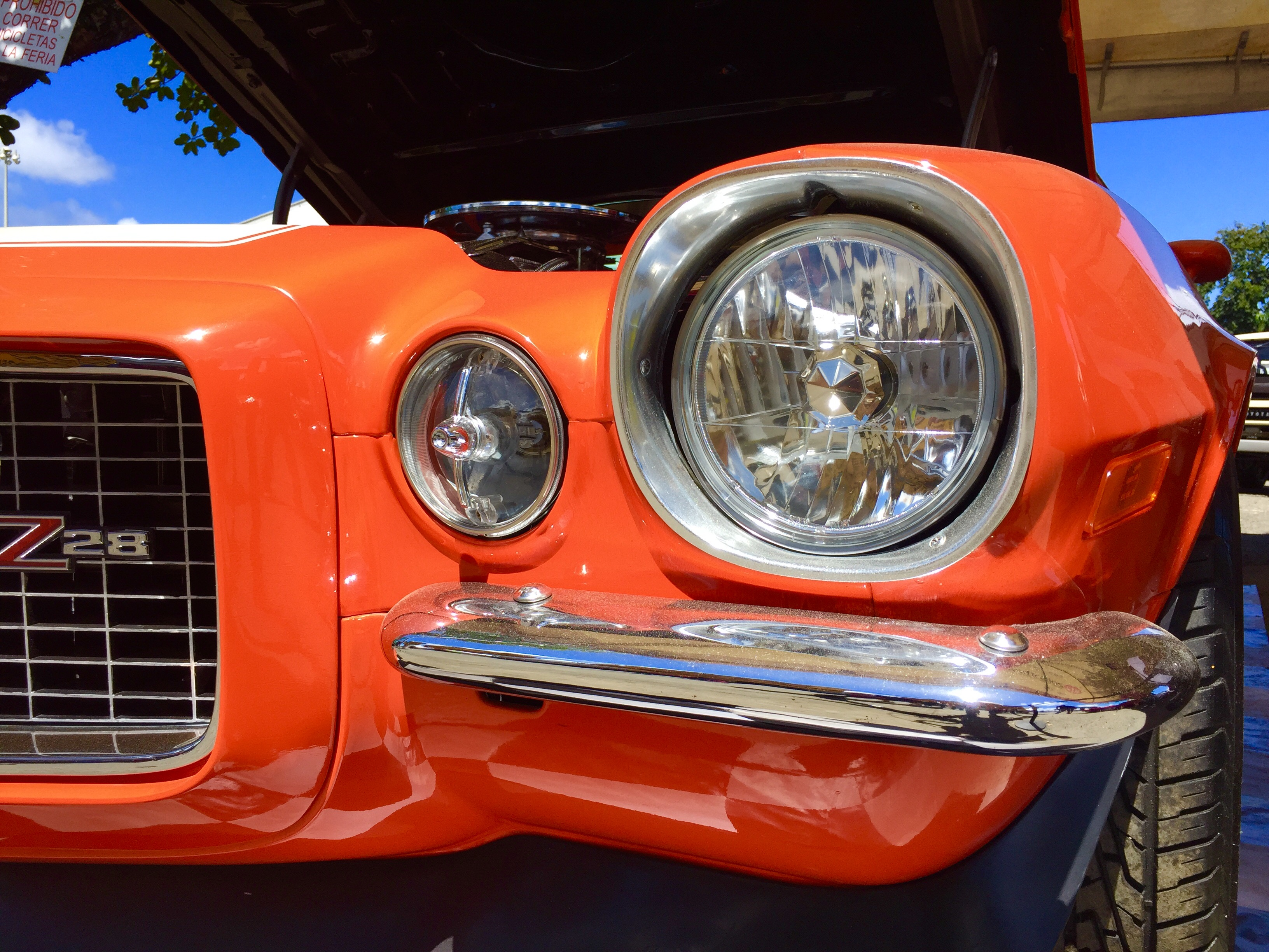 Close up of Camaro bumperettes